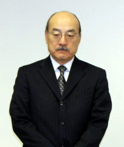 Eamon Gilmore, Tánaiste, visited the Embassy of Japan in Dublin, to sign a book of condolence for the victims of the Tōhoku earthquake and tsunami on March 24, 2011. Gilmore met with Toshinao Urabe, Ambassador to Ireland. (c.f. "アイルランド", 外務省: 「がんばれ日本！ 世界は日本と共にある」（世界各地でのエピソード集）: 欧州（西欧その1）, Ministry of Foreign Affairs of Japan.)